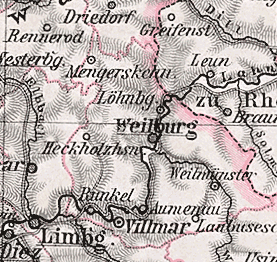 Detail from a map of Hesse.